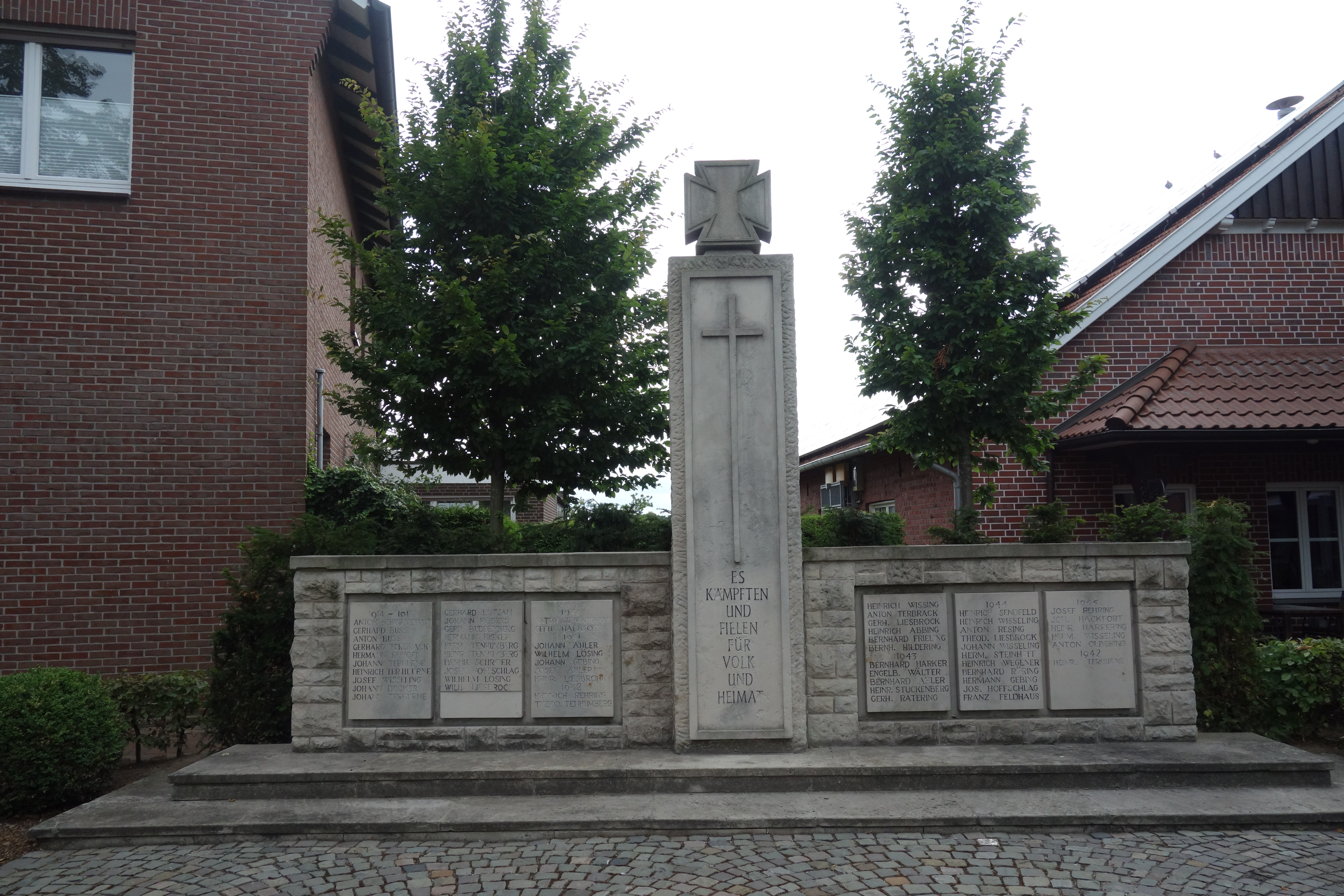 War memorial, WWI and WWII, in Lünten, Germany